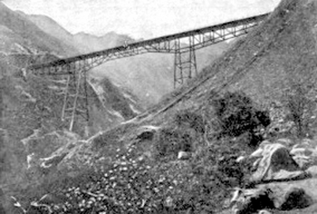 A railroad bridge among the Andes. Probably the Verrugas Bridge in Peru.